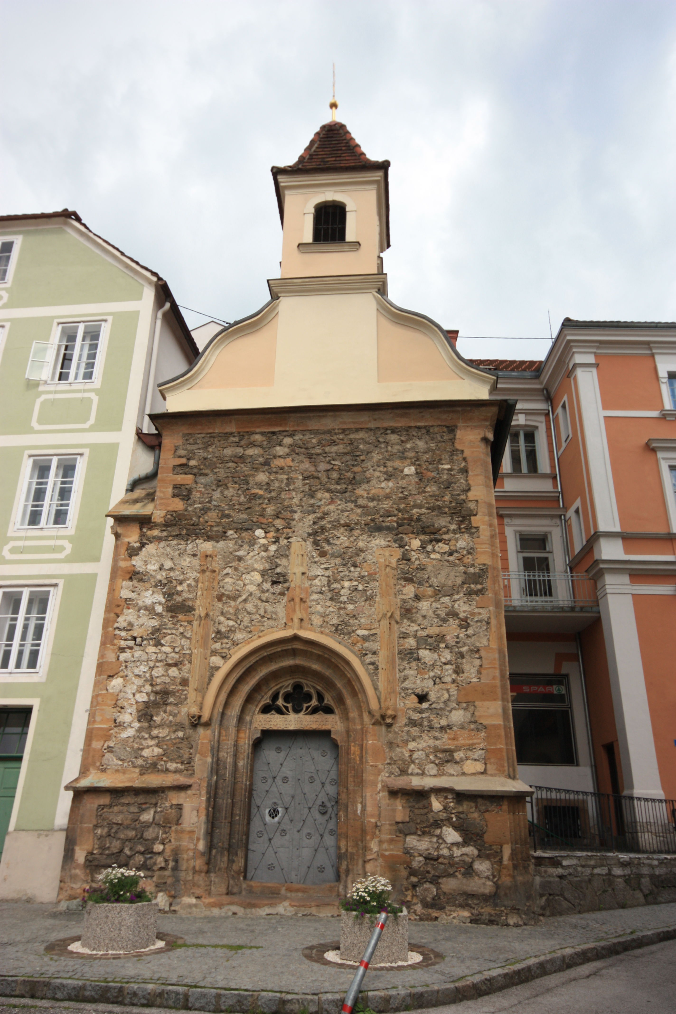 Baker-chapell in Wolfsberg, Carinthia (also known as Anna-chapell)